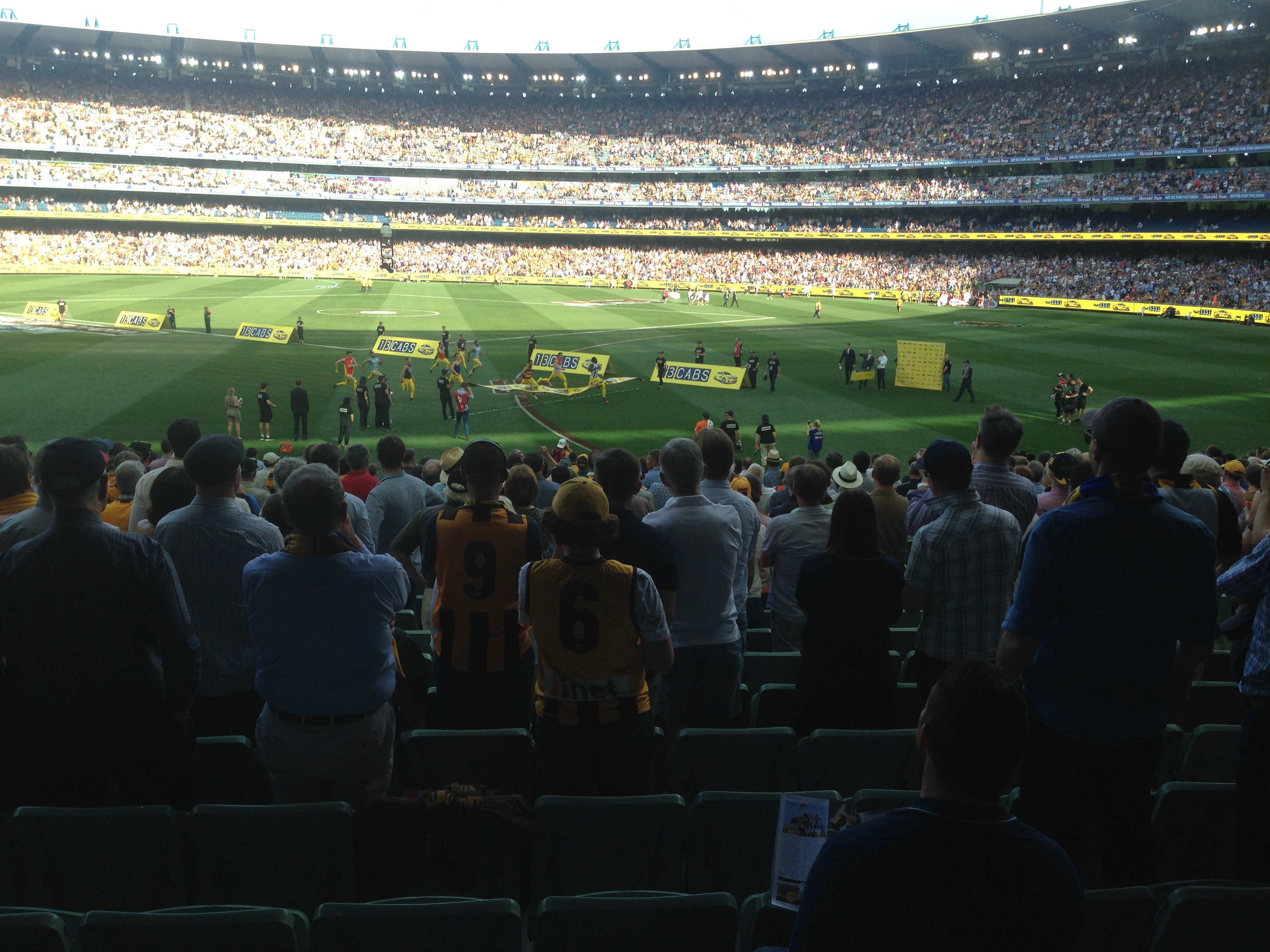 The 2015 AFL Grand Final sprint, run during the half time break of the game. Majak Daw of North Melbourne was the winner.